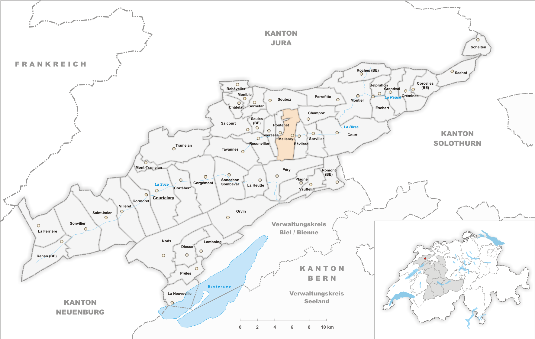 Municipality Malleray